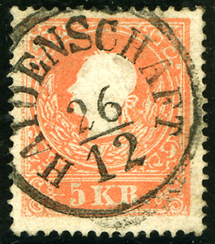 5 kr Austria issue 1859 cancelled in Haidenschaft Ajdovščina, Austrian Littoral, Slovenia